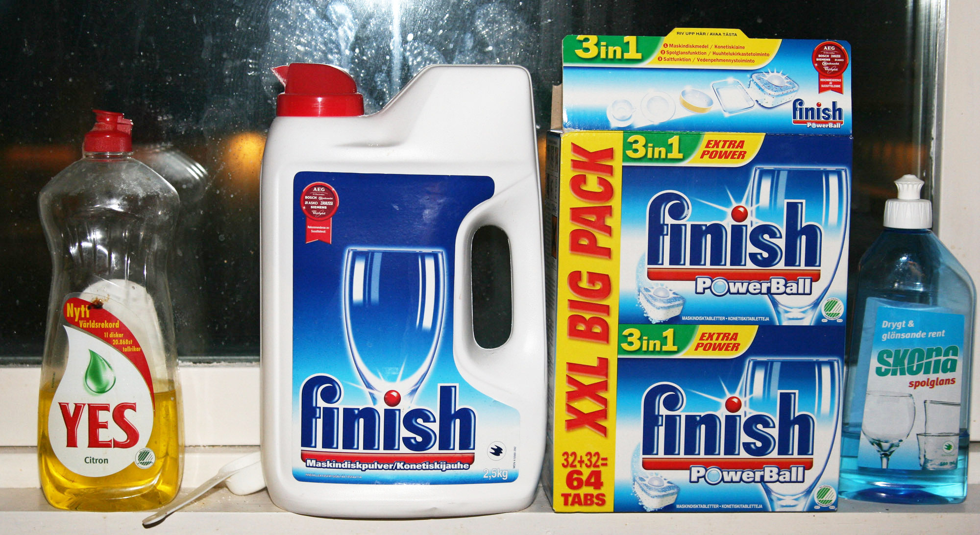 Washing-up liquid and powder.